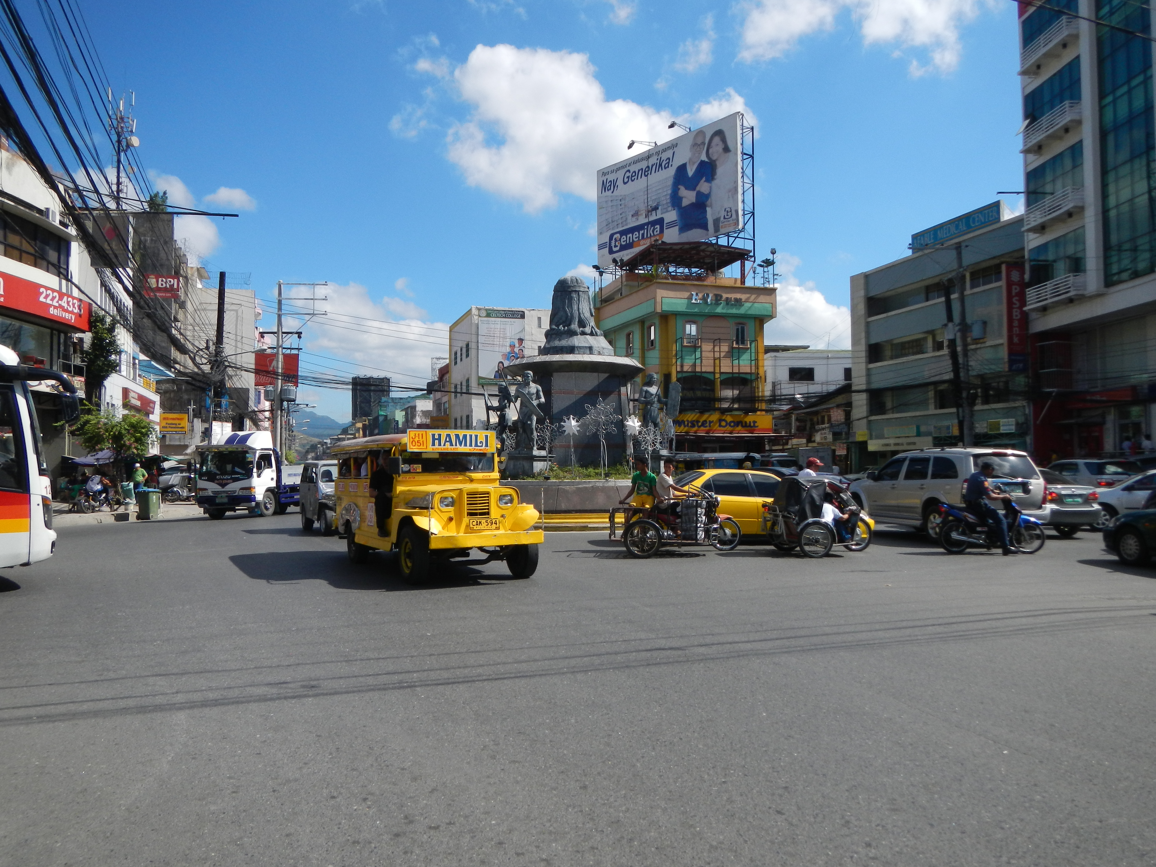 Upload Wizard photos -- (General description, 3-dimension angle by angle photography of this town, church & landmarks) -- the - Pan-Philippine Highway or Daang Maharlika or National Highway passing along Olongapo City, [1] Zambales Proper (details - Ulo ng Apo: a towering and majestic marker located in rotunda in Bajac-Bajac tourist attraction on the City legend, Mercury Drug, Villagracia building, Victory Liner building and terminal, station, bus stop, Saint Joseph Catholic Church of Olongapo City - Roman Catholic Diocese of Iba[2] [3] Olongapo Vicariate Vicar Forane: Rev. Fr. Daniel Presto F-1920 2200 Olongapo City Titular: St. Joseph, March 19 Parish Priest: Rev. Fr. Bernard Mulkerins, MSSC Parochial Vicars: Rev. Fr. Denis Egan, MSSC Rev. Fr. John Walsh, MSSC Rev. Fr. Ian Maniago Rev. Fr. Francis O’ Kelly, MSSC - Dedicated on August 16, 2010 - 18th street, Barretto, East Bajac, Olongapo City).